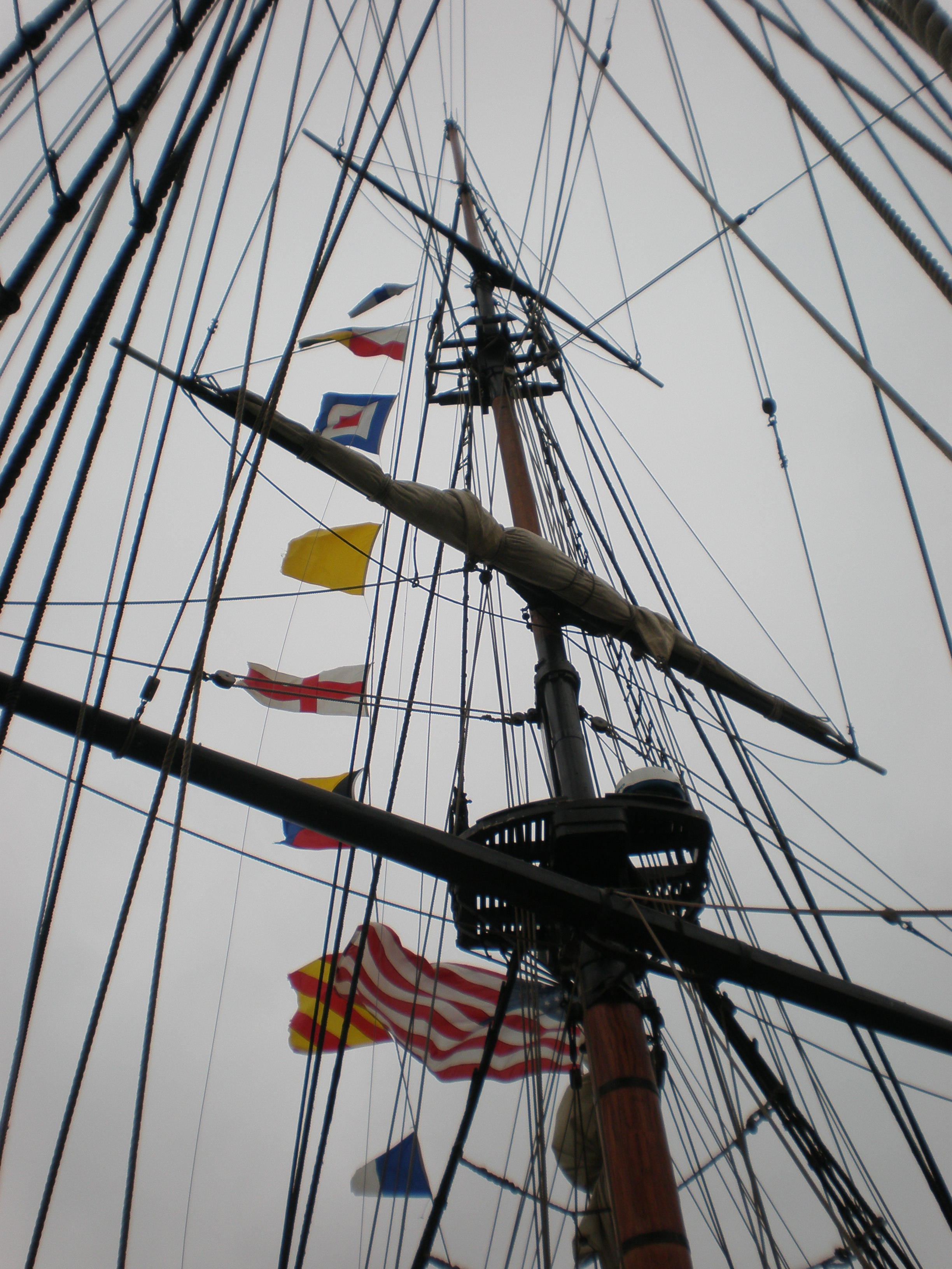 The mizzen-mast of the Bounty II, seen while the ship was docked during the Festival of Sail San Francisco 2008.